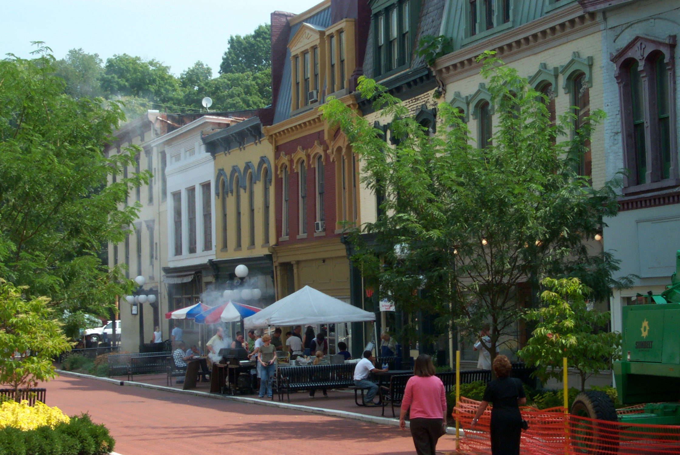 Downtown Frankfort, KY during lunch